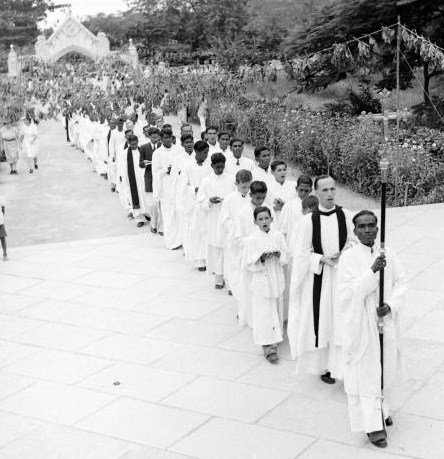 own this work